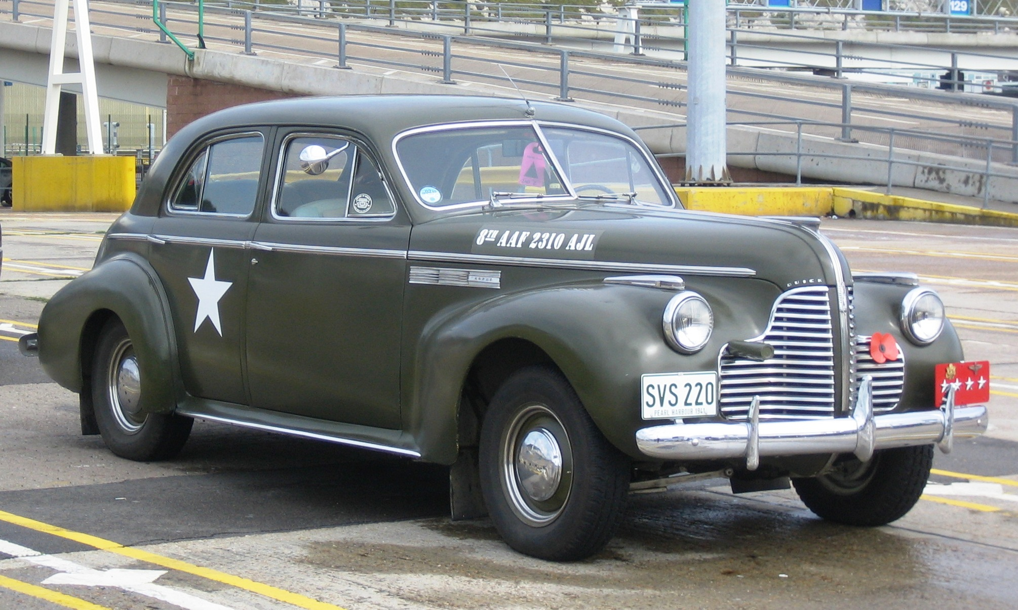 1940 Buick Series 50 Model 51 in USAF paint scheme. The 1940 Buick in question is clearly a Super (given that it has hood moldings consistent with the smaller straight-8). Specials and Centurys were built on GM's B-body and Supers and Roadmasters were built on GM's C-body. In 1940 the GM C-body received cutting-edge "torpedo" styling that featured shoulder and hip room that was over 5" wider, the option of eliminating the running boards and exterior styling that was streamlined and 2-3" lower.